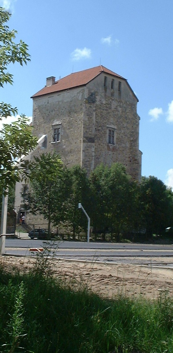 Poland, Wojciechów - Arians' Tower, currently museum.